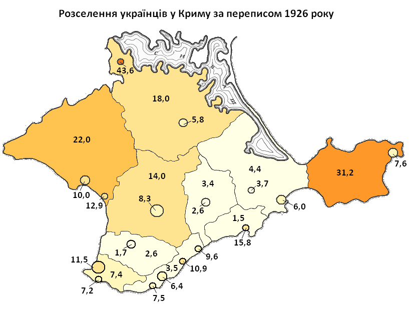 Percentage of ukrainians in Crimea according to 1926 census